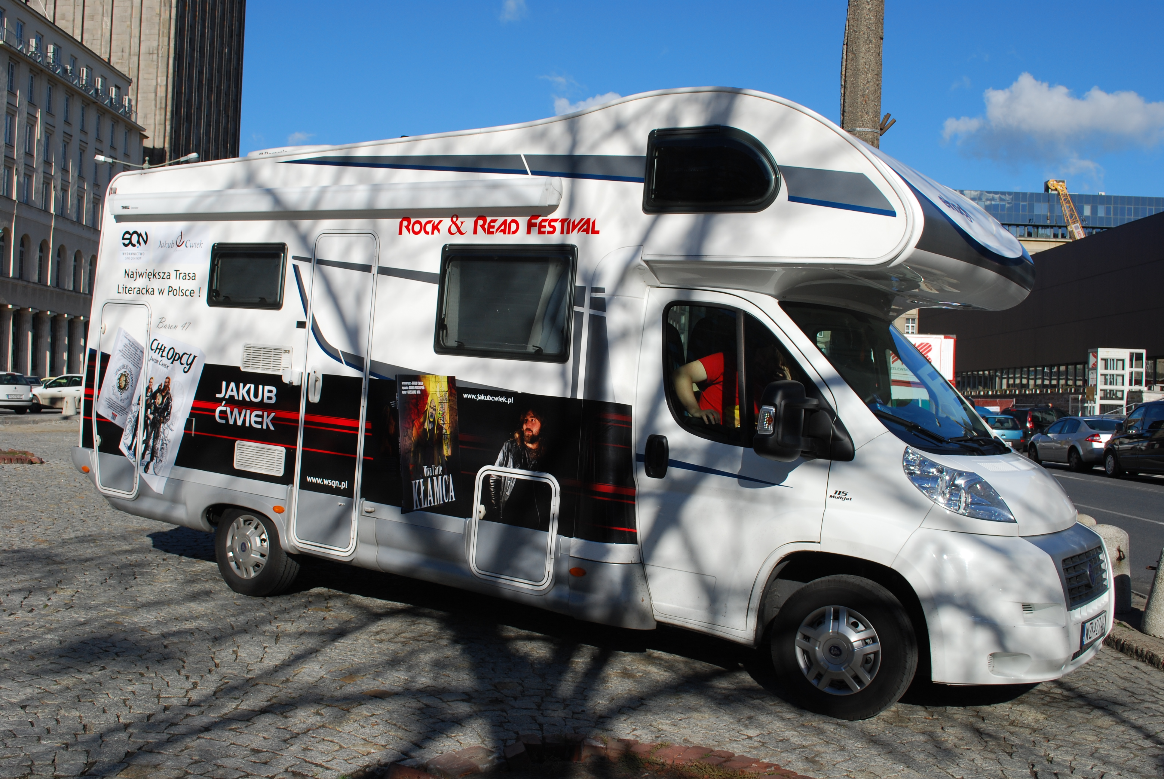 Rock&Read Festival